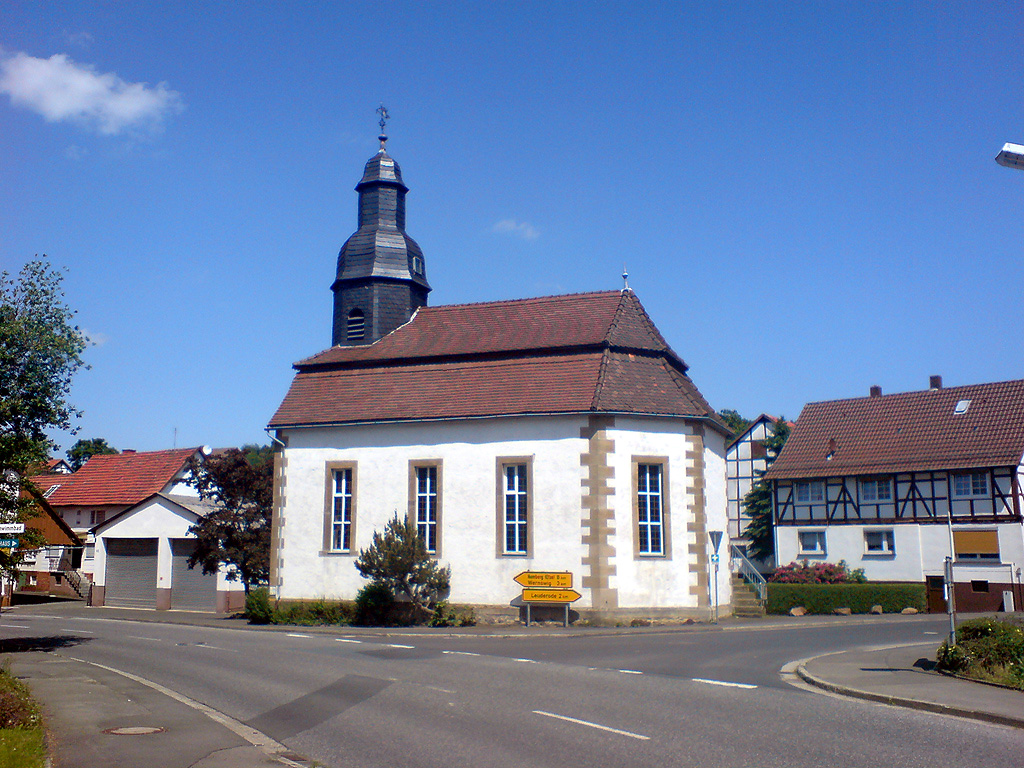 Church of Lenderscheid (Germany)